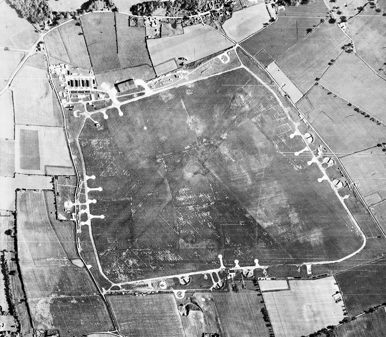 Aerial photograph of Matlaske airfield looking north, Matlaske village is at the top, 27 June 1946. Photograph taken by No. 540 Squadron, sortie number RAF/106G/UK/1606. English Heritage (RAF Photography).